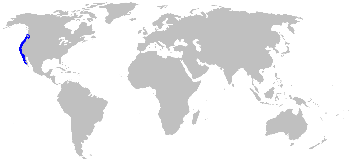 Distribution map for Torpedo californica, based on [1].